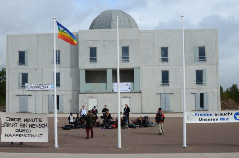 Lebenslaute Konzert in Schnöggerburg am 3. Oktober 2017